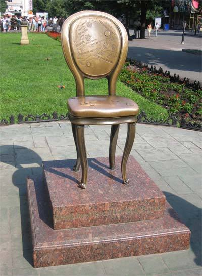 "The Twelve Chairs" novel monument in Odessa - Deribassovskaya street (Ukraine).